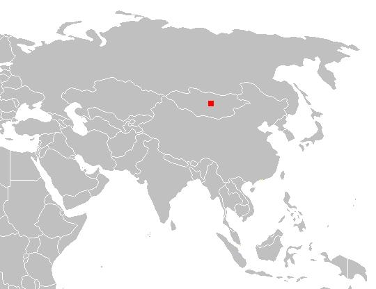 Location of the Orkhon Valley.